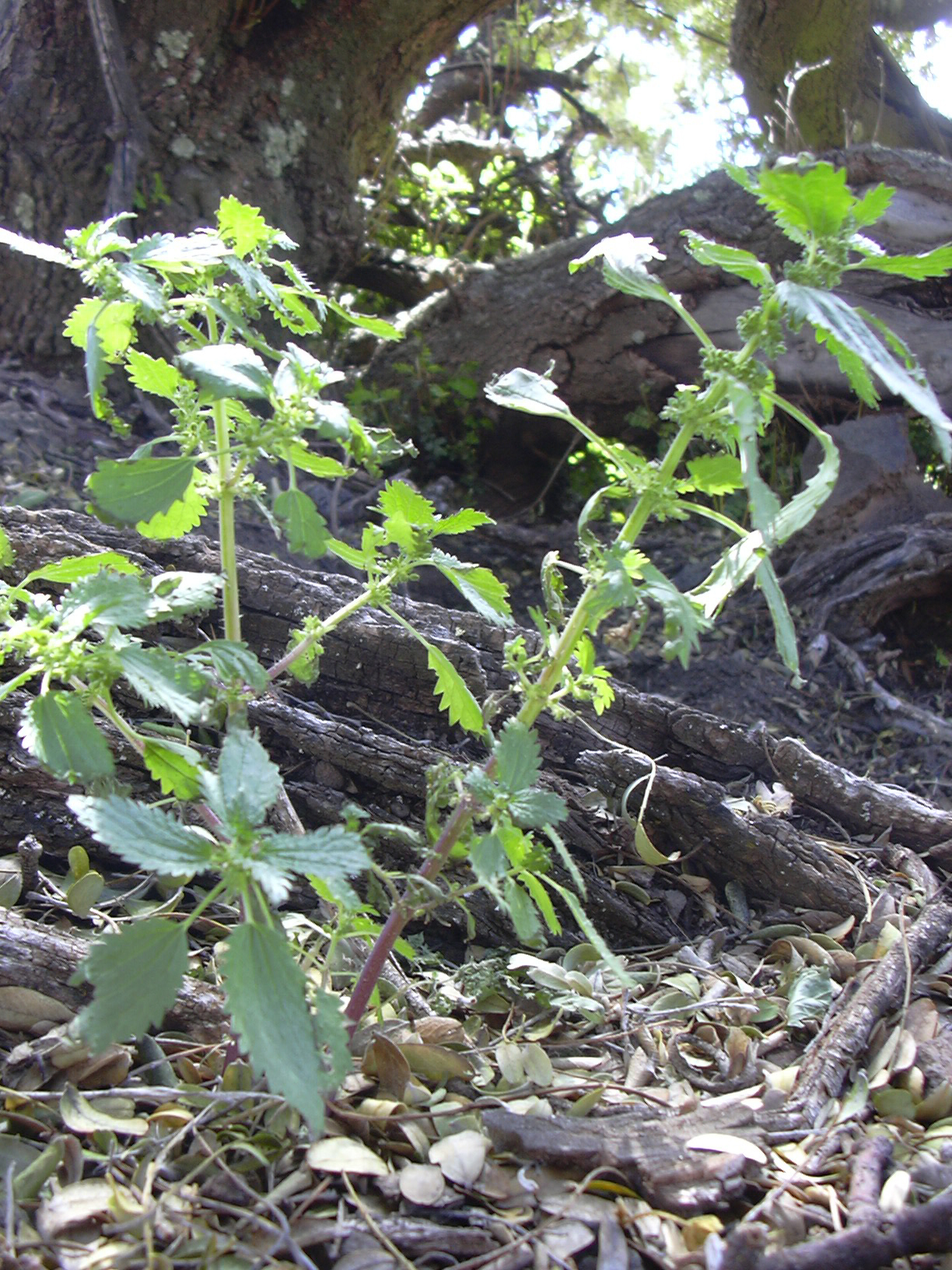 Hesperocnide sandwicensis (habit). Location: Hawaii, Puu Kole